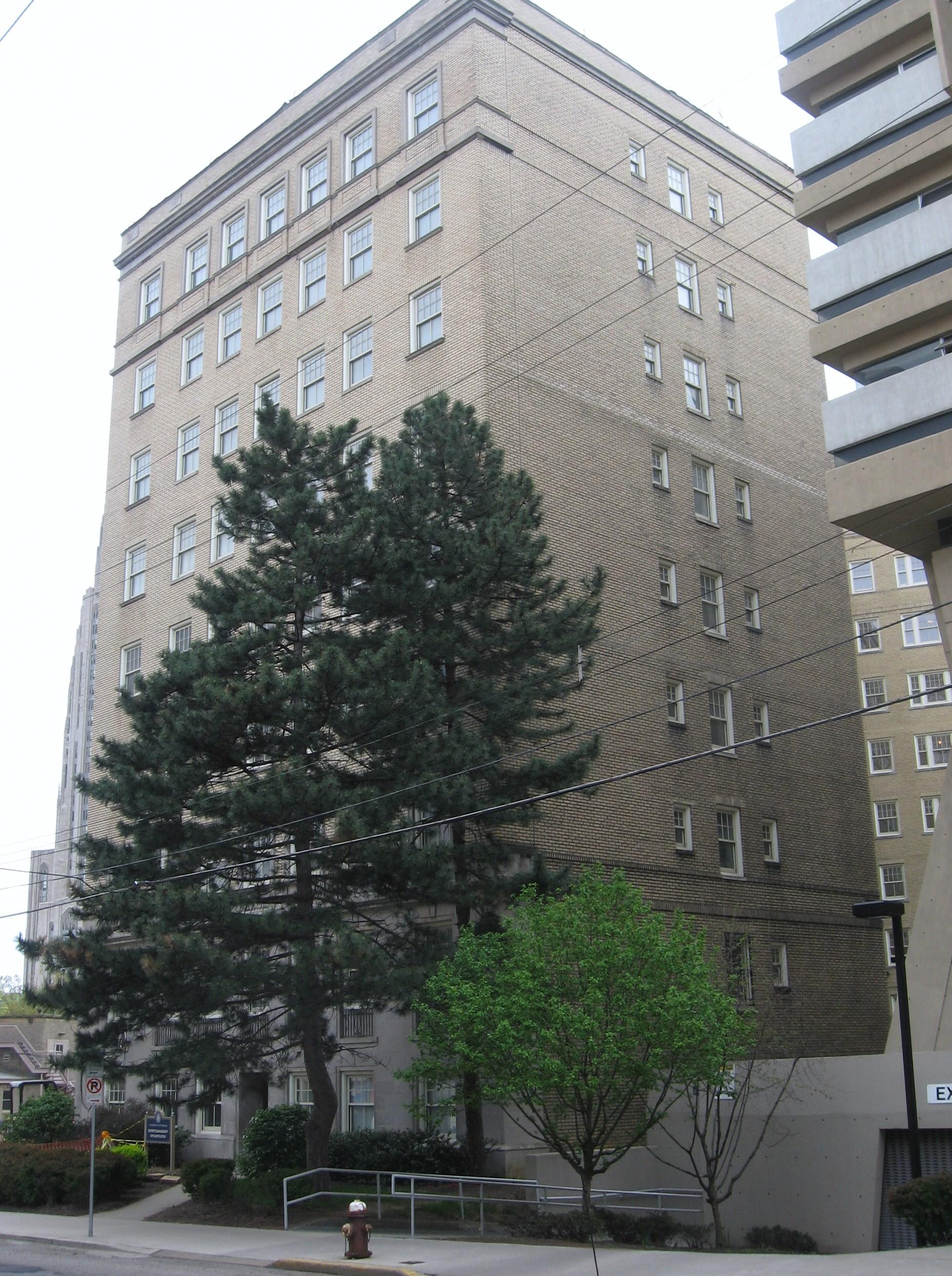 Ruskin Hall at University of Pittsburgh 40°26′49.6″N 79°57′9.1″W / 40.447111°N 79.952528°W